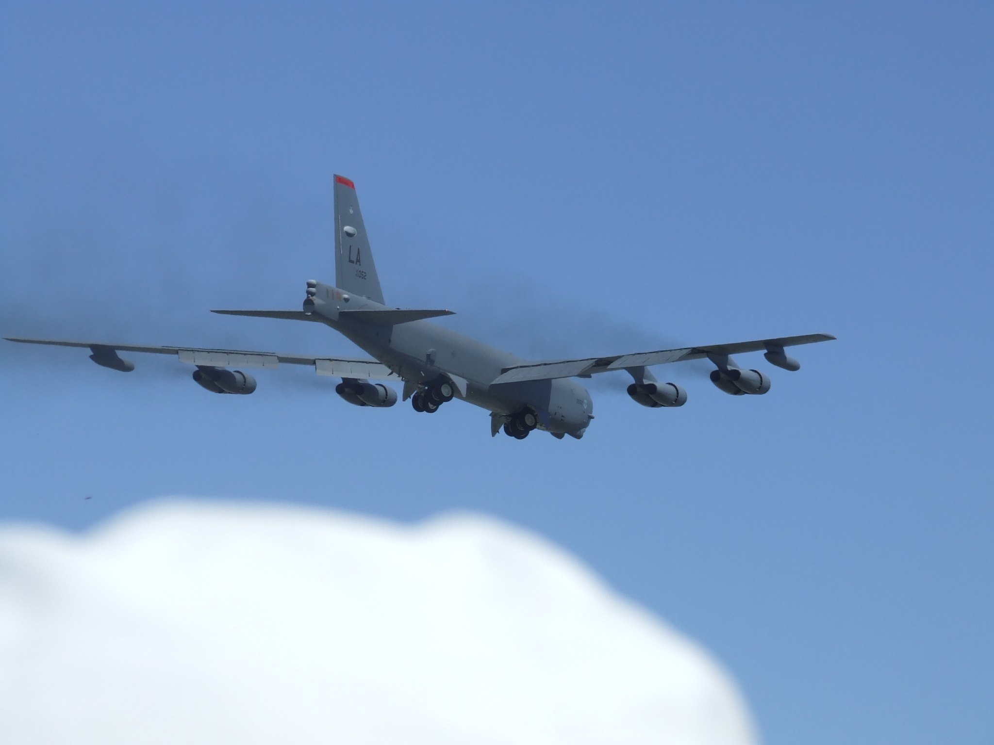 A B52 at the International Air Tattoo RAF Fairford 2006